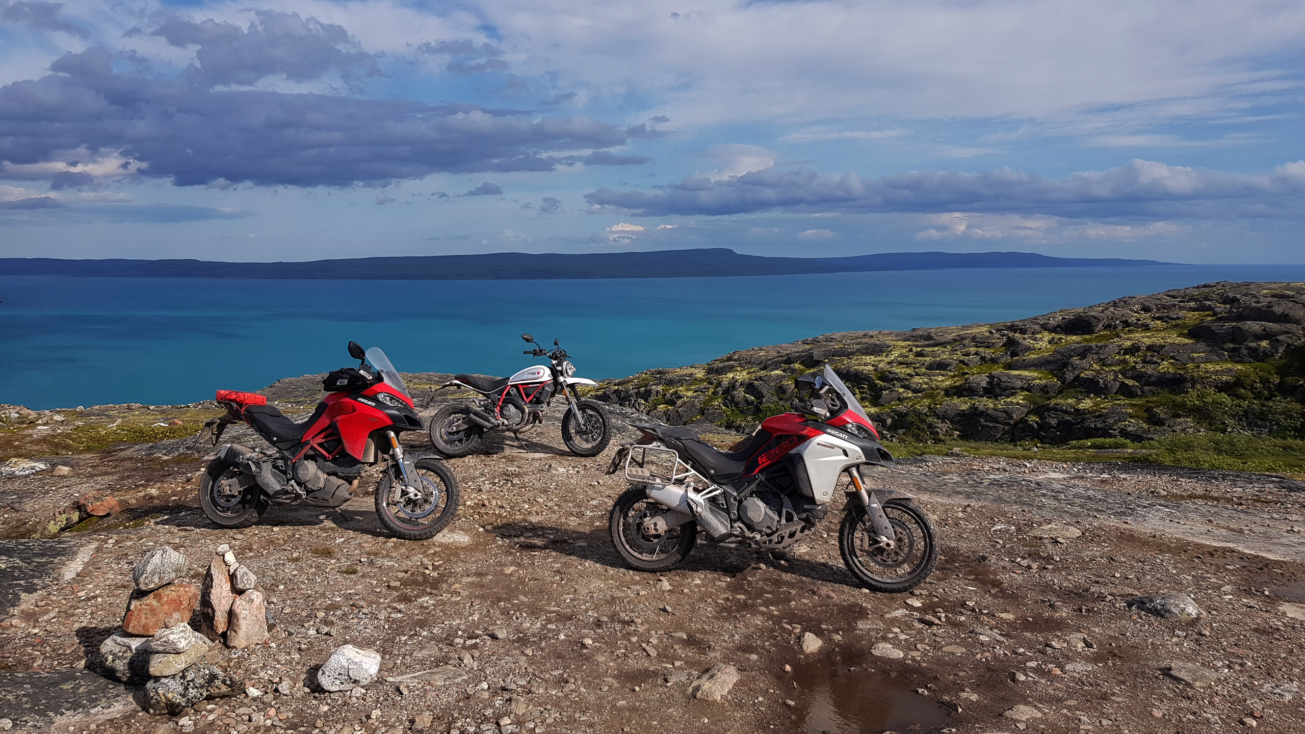 Three italian motorbikes on the rock at peninsula Rybachiy, Russia.